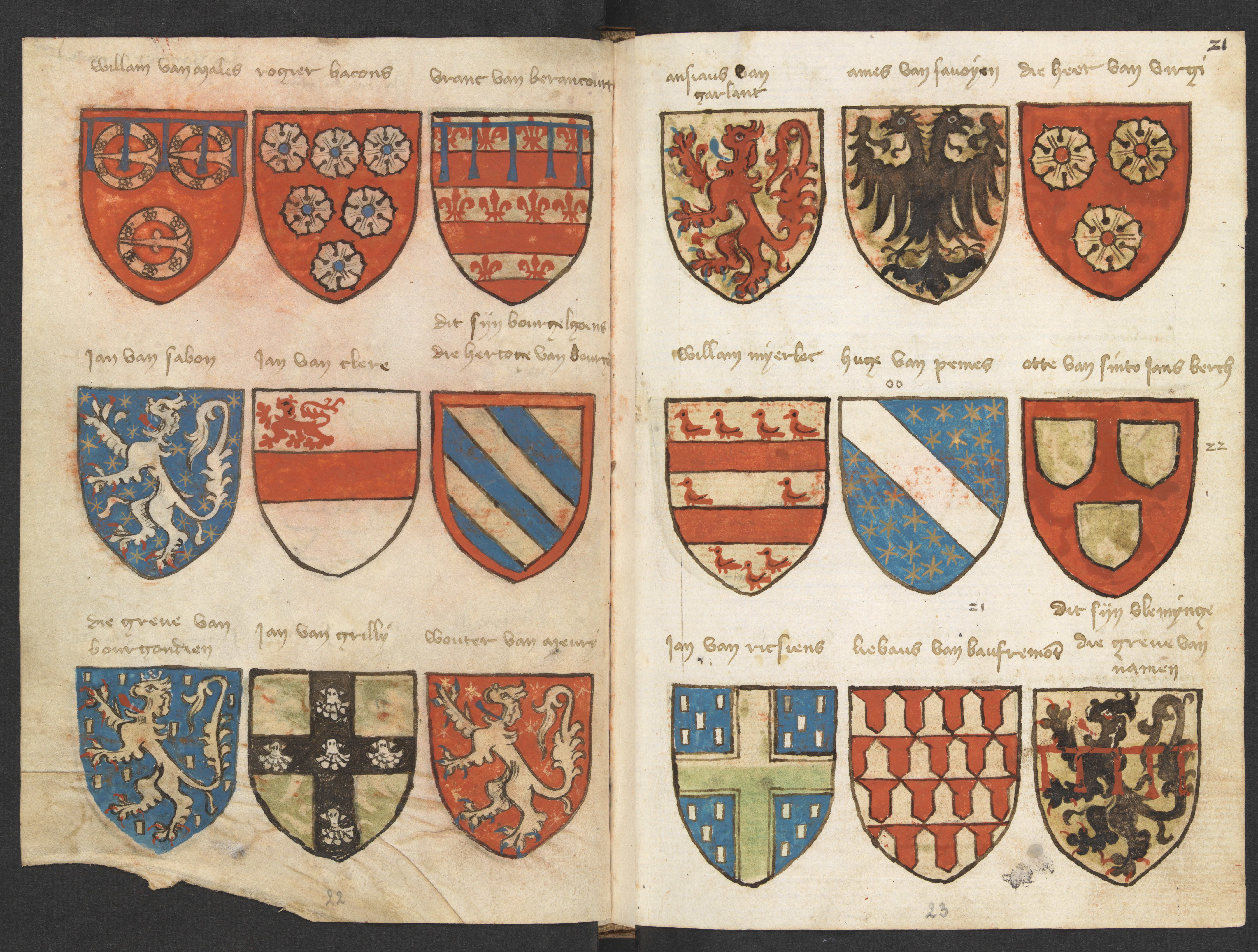 Lefthand side folio 020v; righthand side folio 021r from the Beyeren armorial / Wapenboek Beyeren